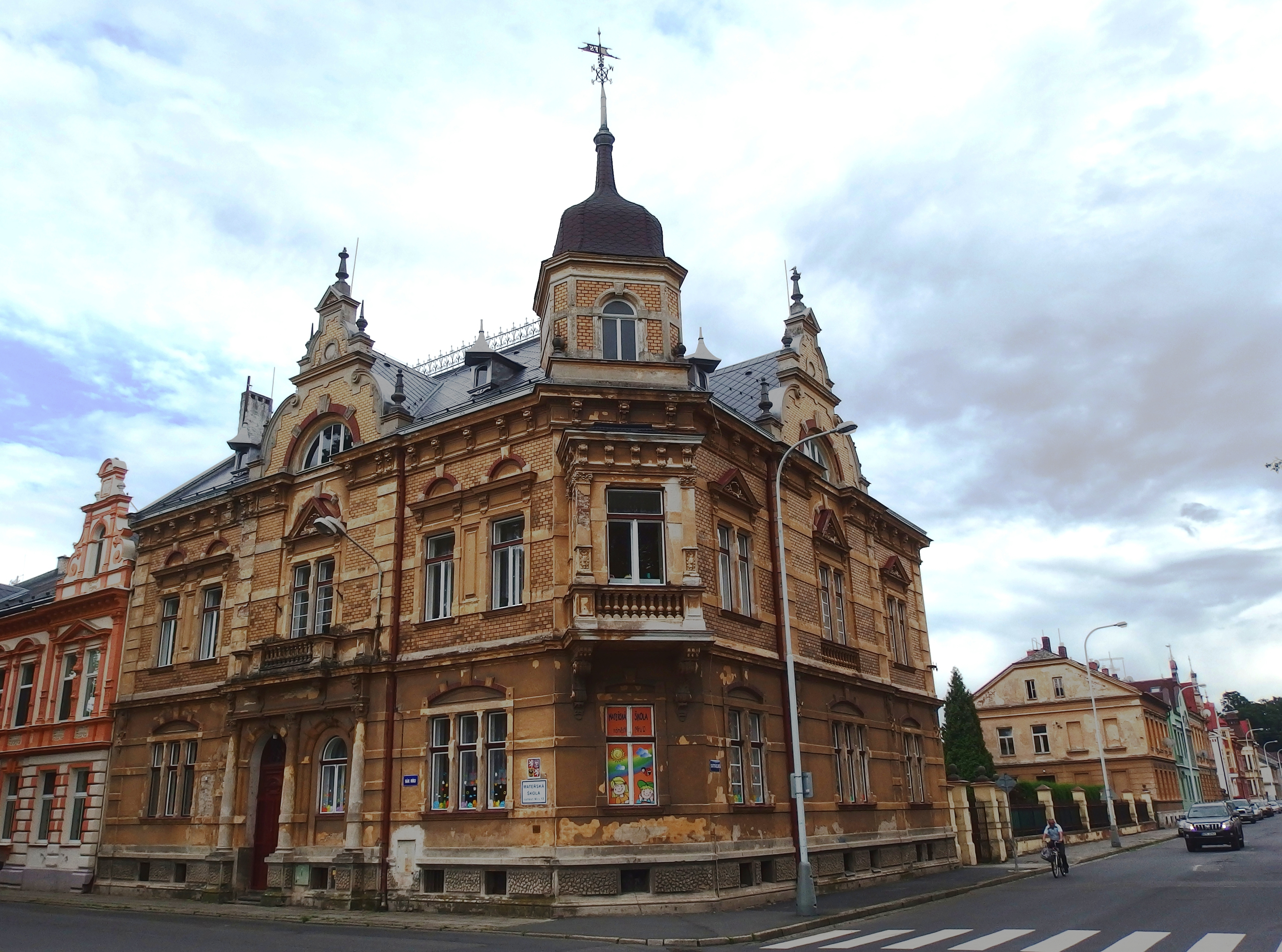 Krnov, Bruntál District, Czech Republic.